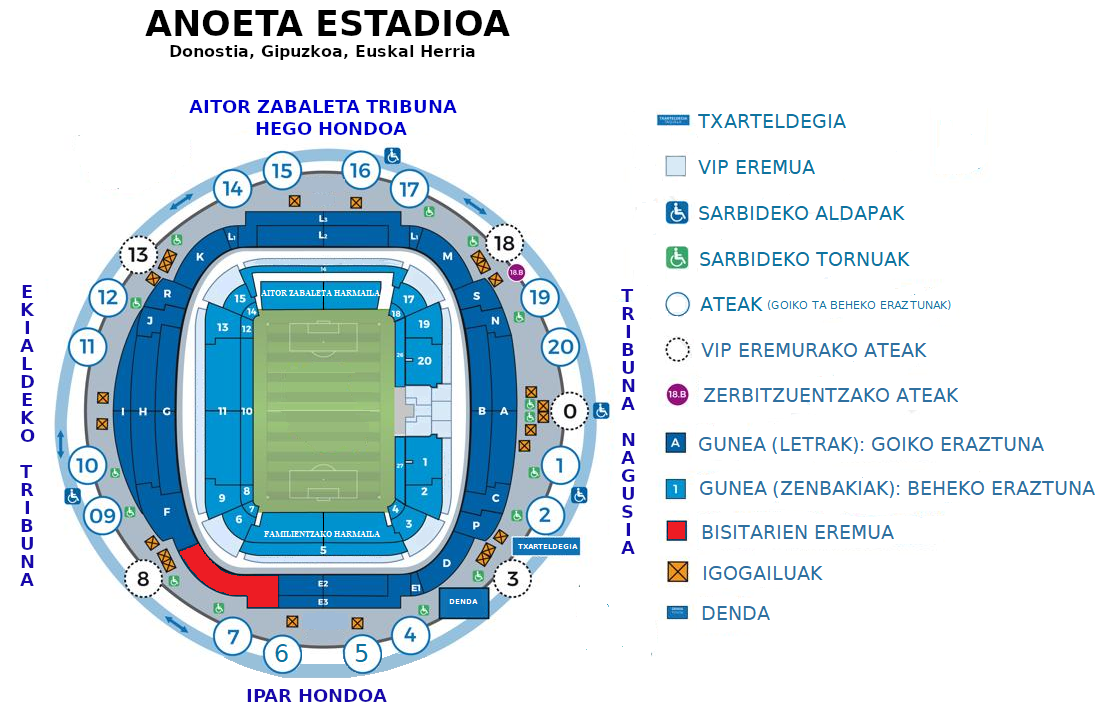 Anoeta Stadium, Donostia-San Sebastian, Gipuzkoa, Basque Country